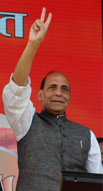 Rajnath Singh at Hunkar Rally in Patna